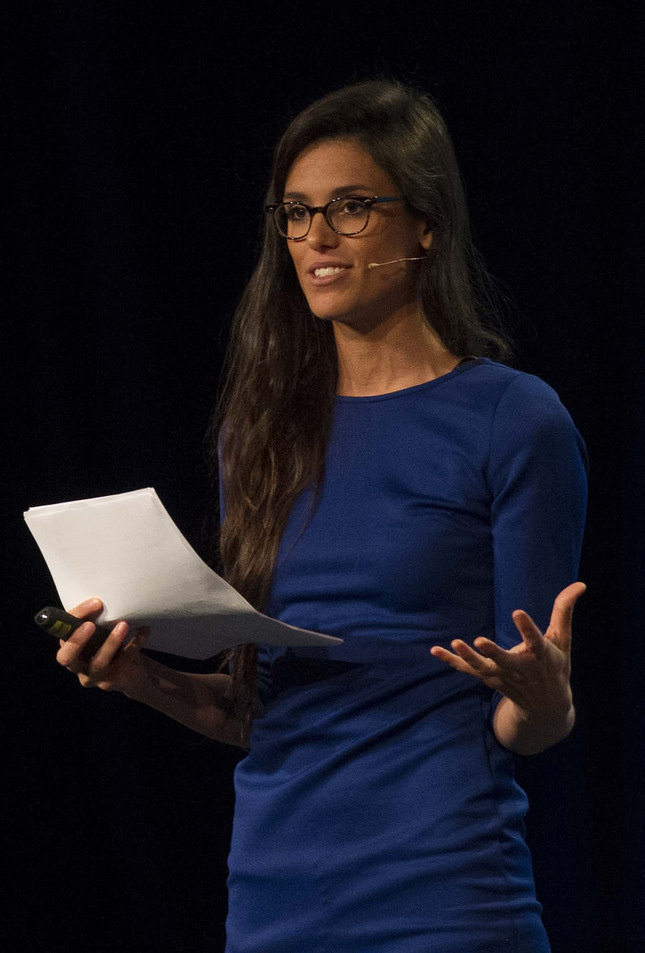 Elizabeth Plank speaks in 2014